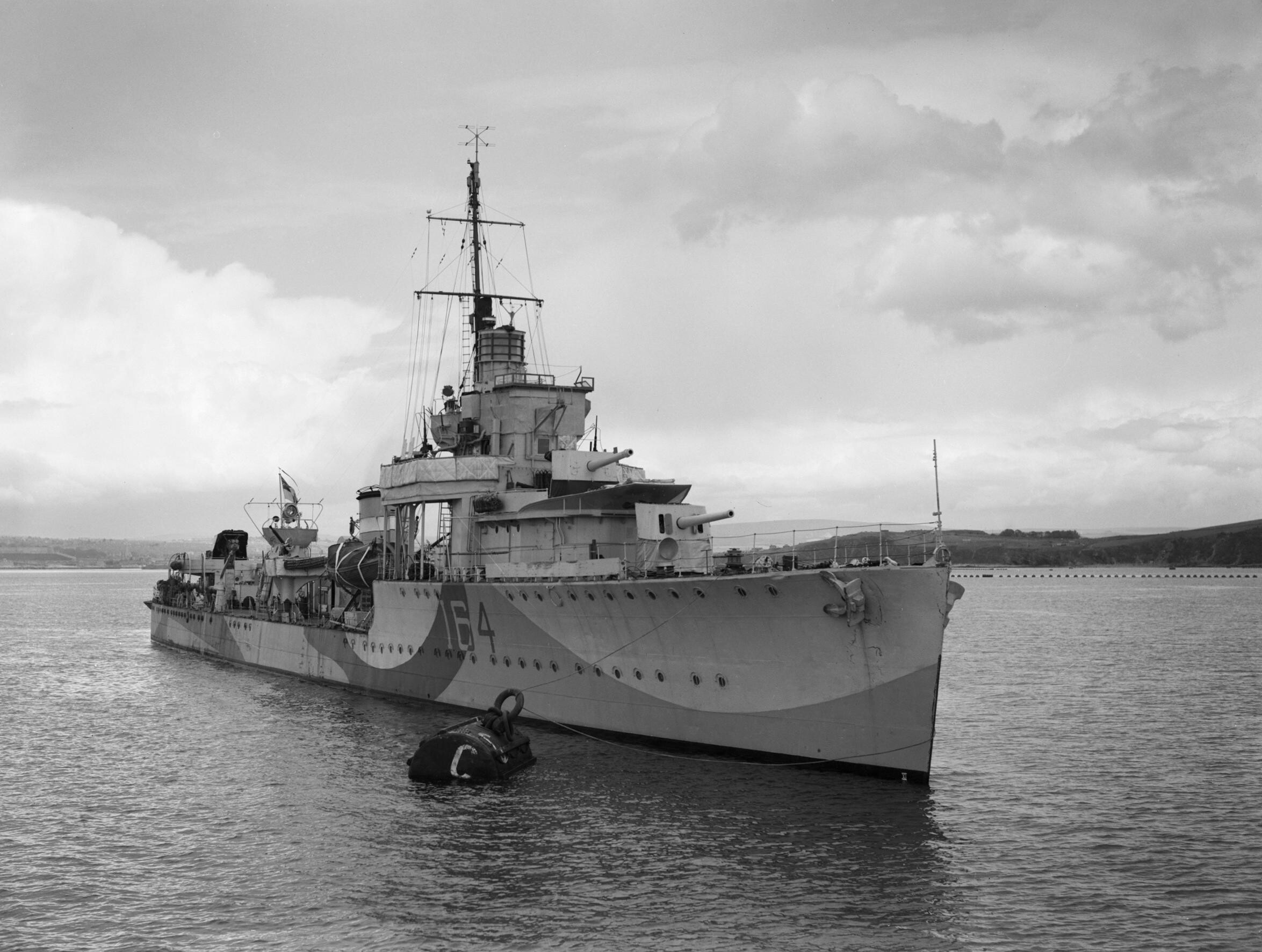 British destroyer HMS VANSITTART at a buoy.